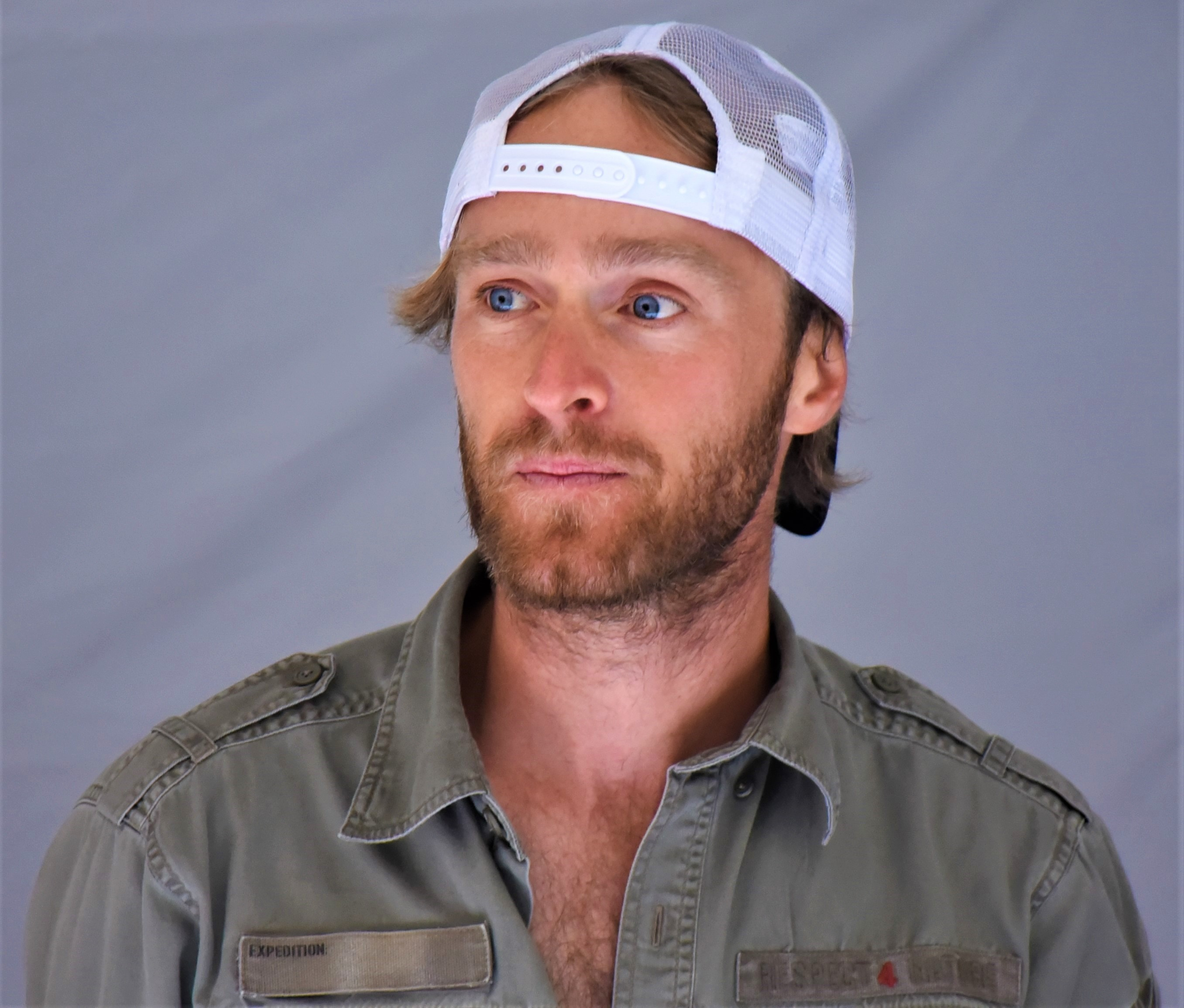 Jakub Vágner, Czech angler